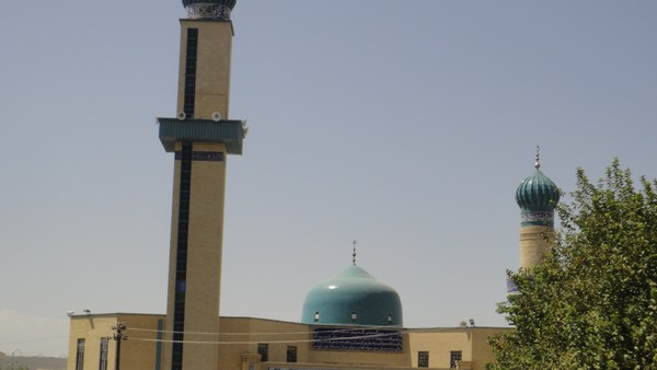 Sulaymaniyah big mousqe